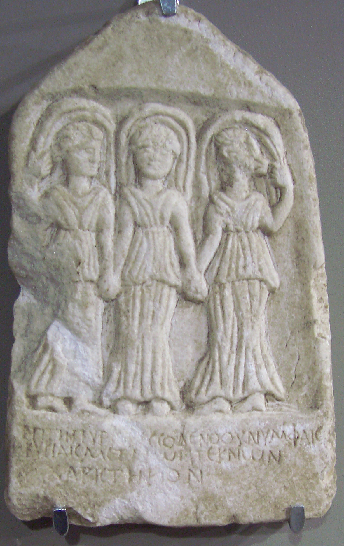 Marble votive tablet of the Three nymphs, II-III century, in the collection of Stara Zagora's Regional history museum